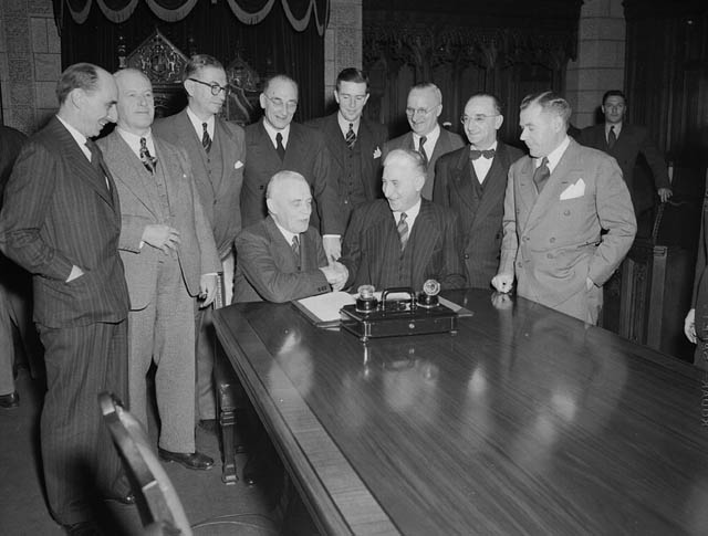 Newfoundland and Canadian Government delegation signing the agreement admitting Newfoundland to Confederation. Prime Minister Louis S. St. Laurent and Hon. A.J. Walsh shake hands following signing of agreement.